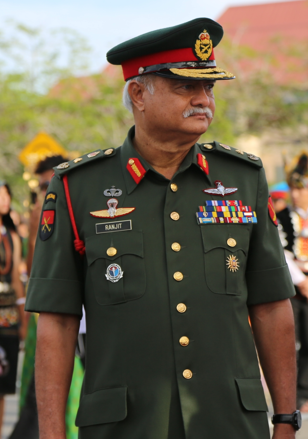 Sabah, Malaysia: Brigade-General Ranjit Singh Ramday during the Hari Merdeka celebrations 2013 in Likas, Sabah